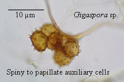 A cluster of spiny to papillate auxiliary cells, typical of those formed by members of the genus Gigaspora